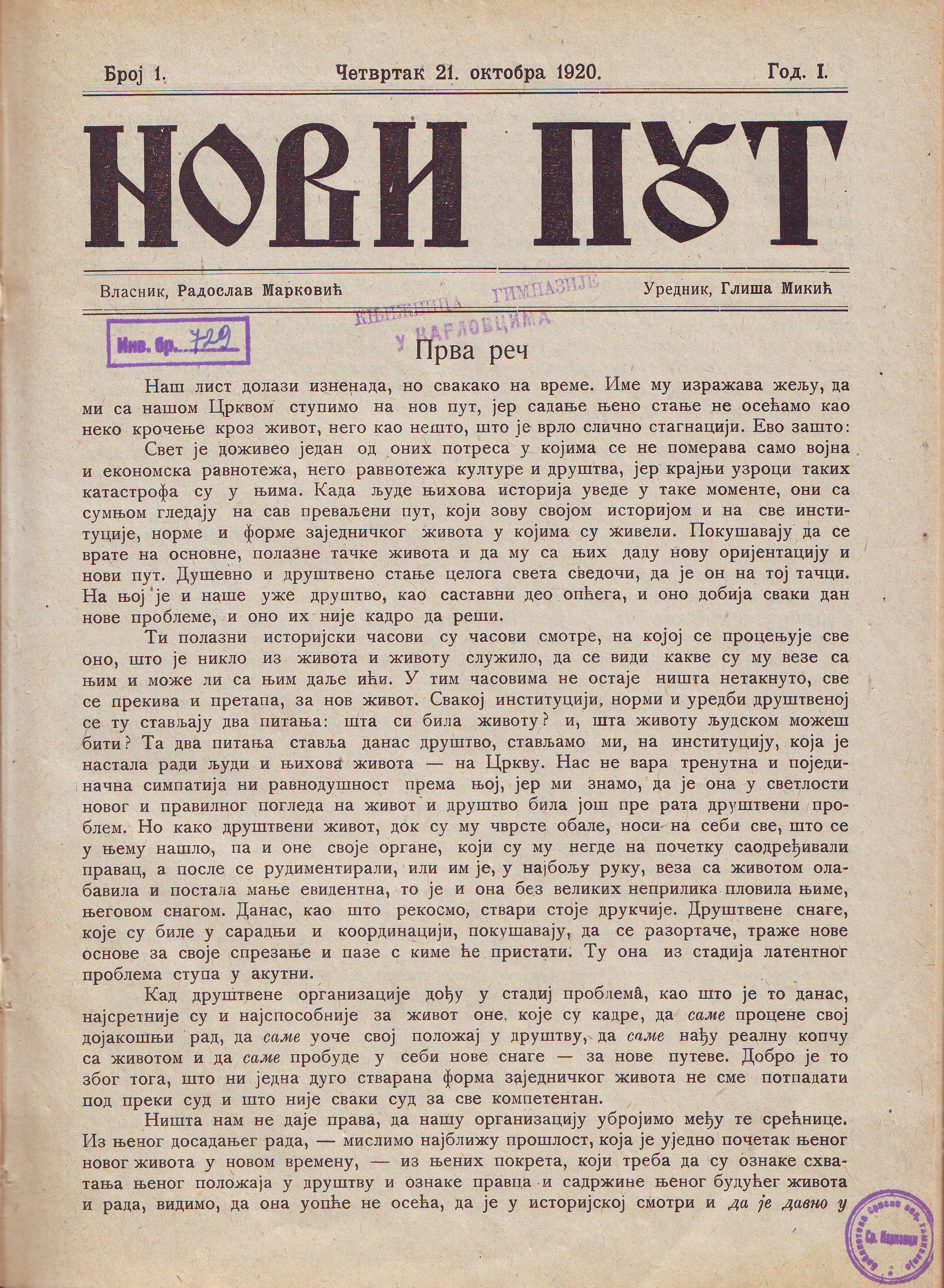 Front page of the magazine Novi put for 21 October 1920. Srpski (latinica): Naslovna strana lista Novi put za 21. oktobar 1920. godine.